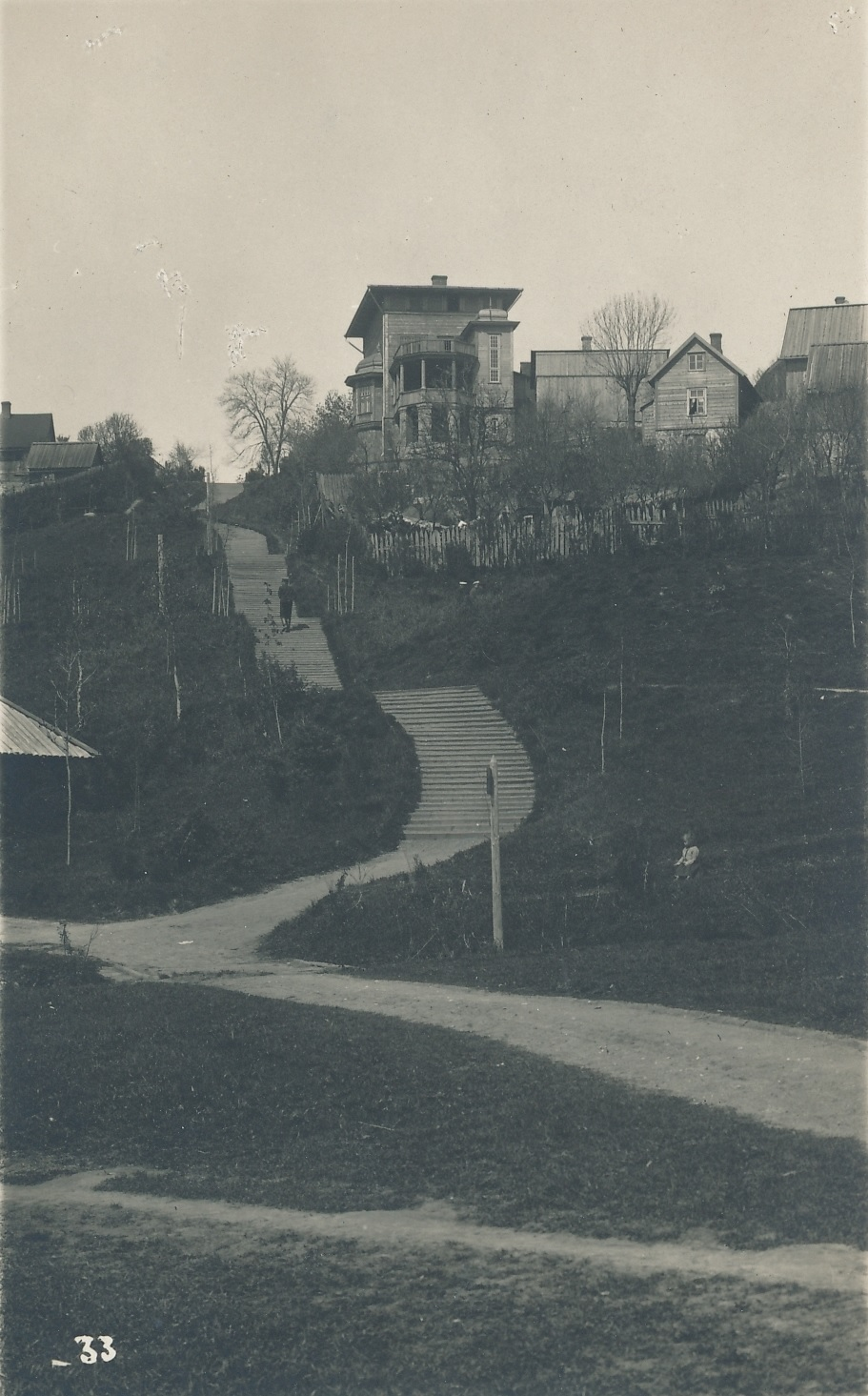 View of Trepimägi & Villa Sellheim, Viljandi, ca 1907-1908